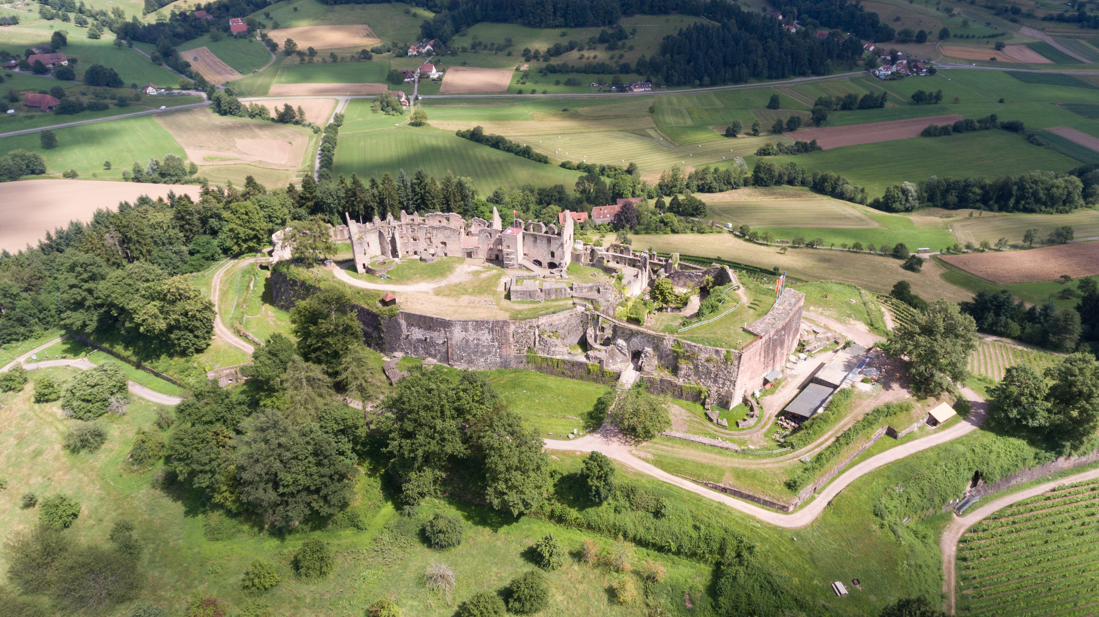 Aerial view castle ruin Hochburg near Emmendingen